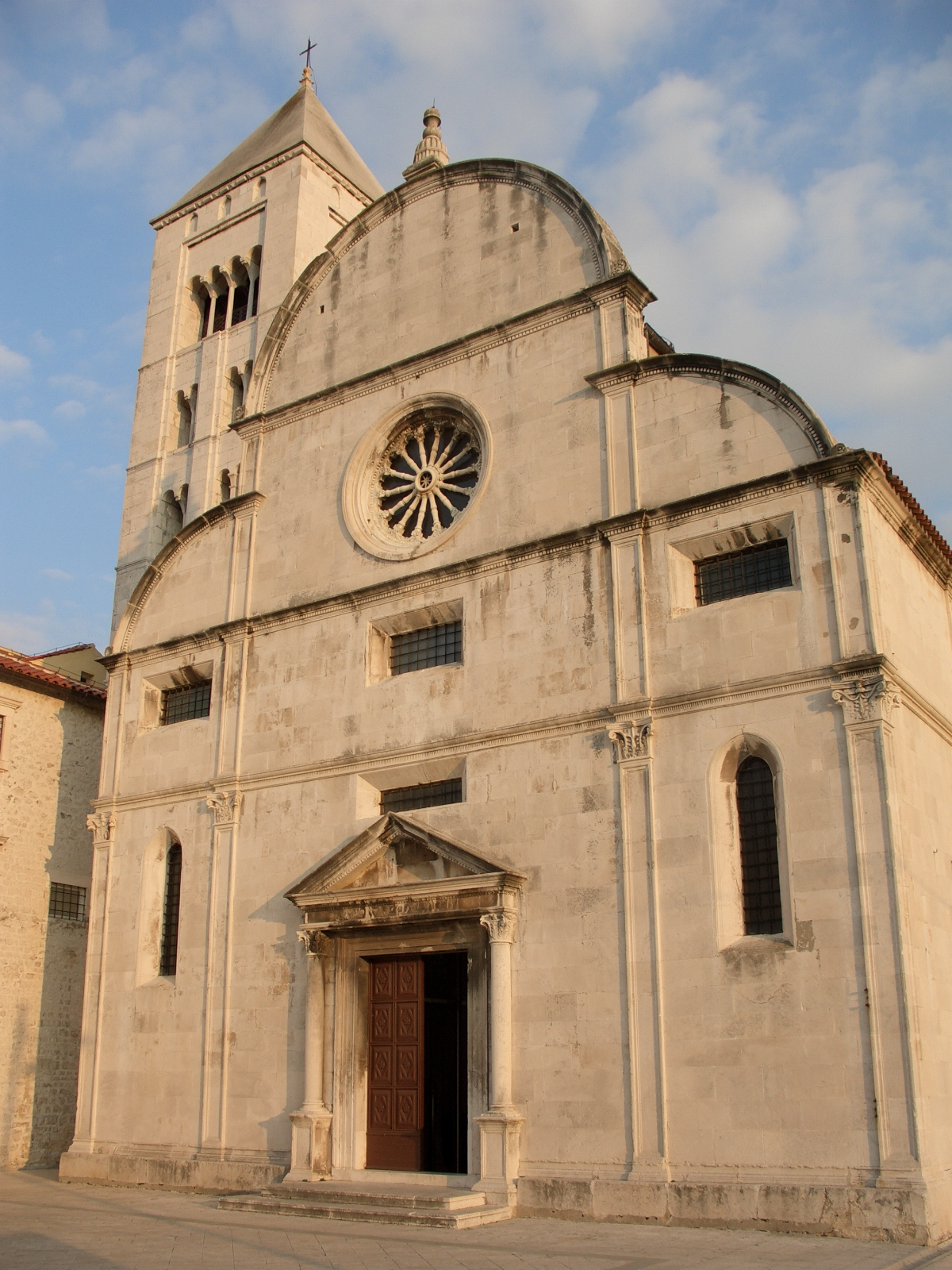 St. Mary's Church